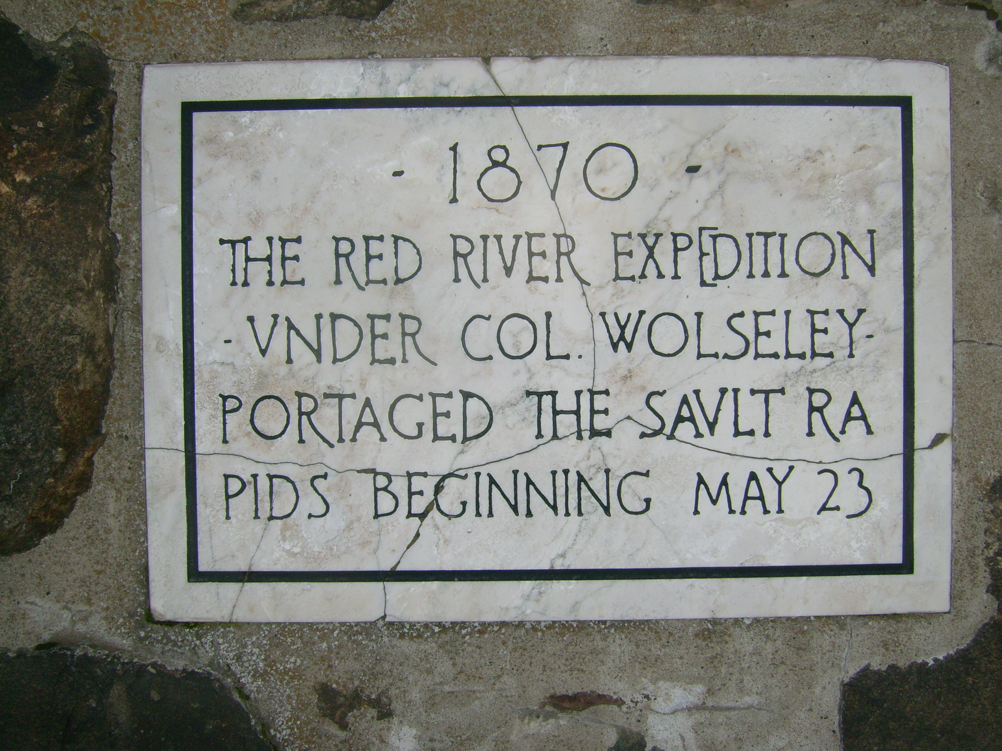 Red River Expedition cairn, Sault Ste. Marie, Ontario. - 1870 - THE RED RIVER EXPEDITION - VNDER COL. WOLSELEY - PORTAGED THE SAVLT RA PIDS BEGINNING MAY 23